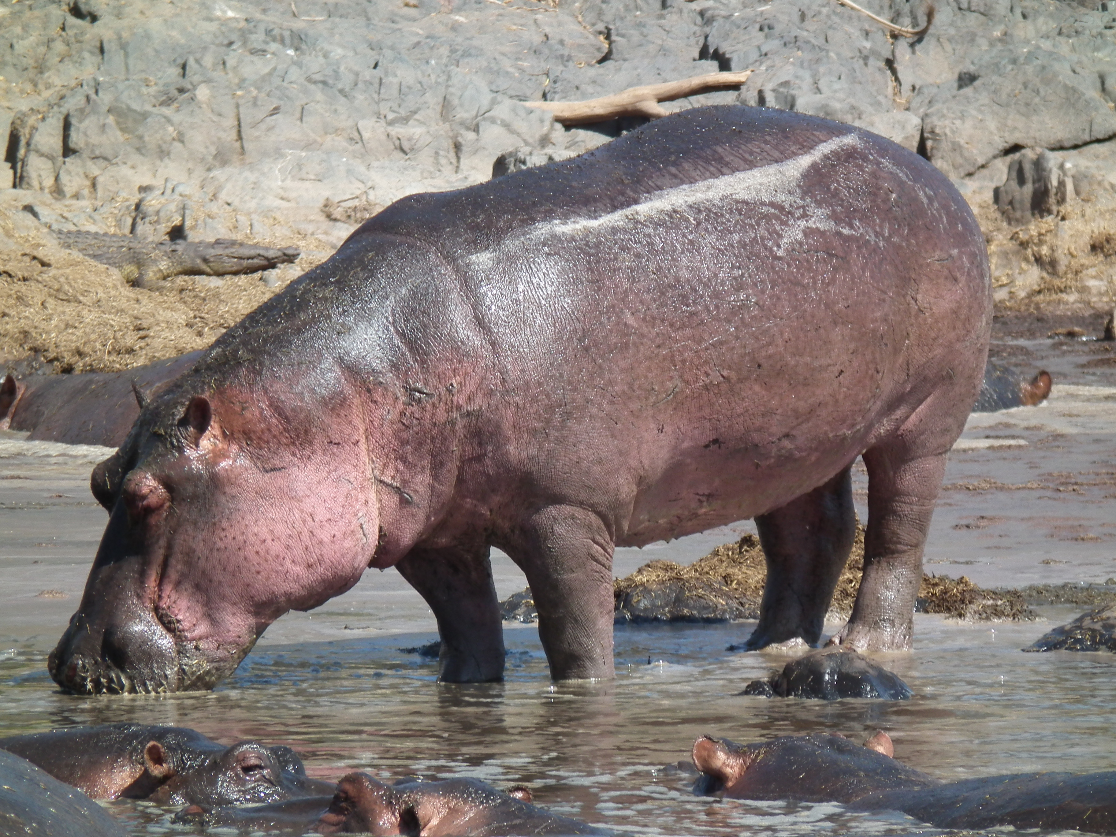 Hippopotamus amphibius from Tanzania